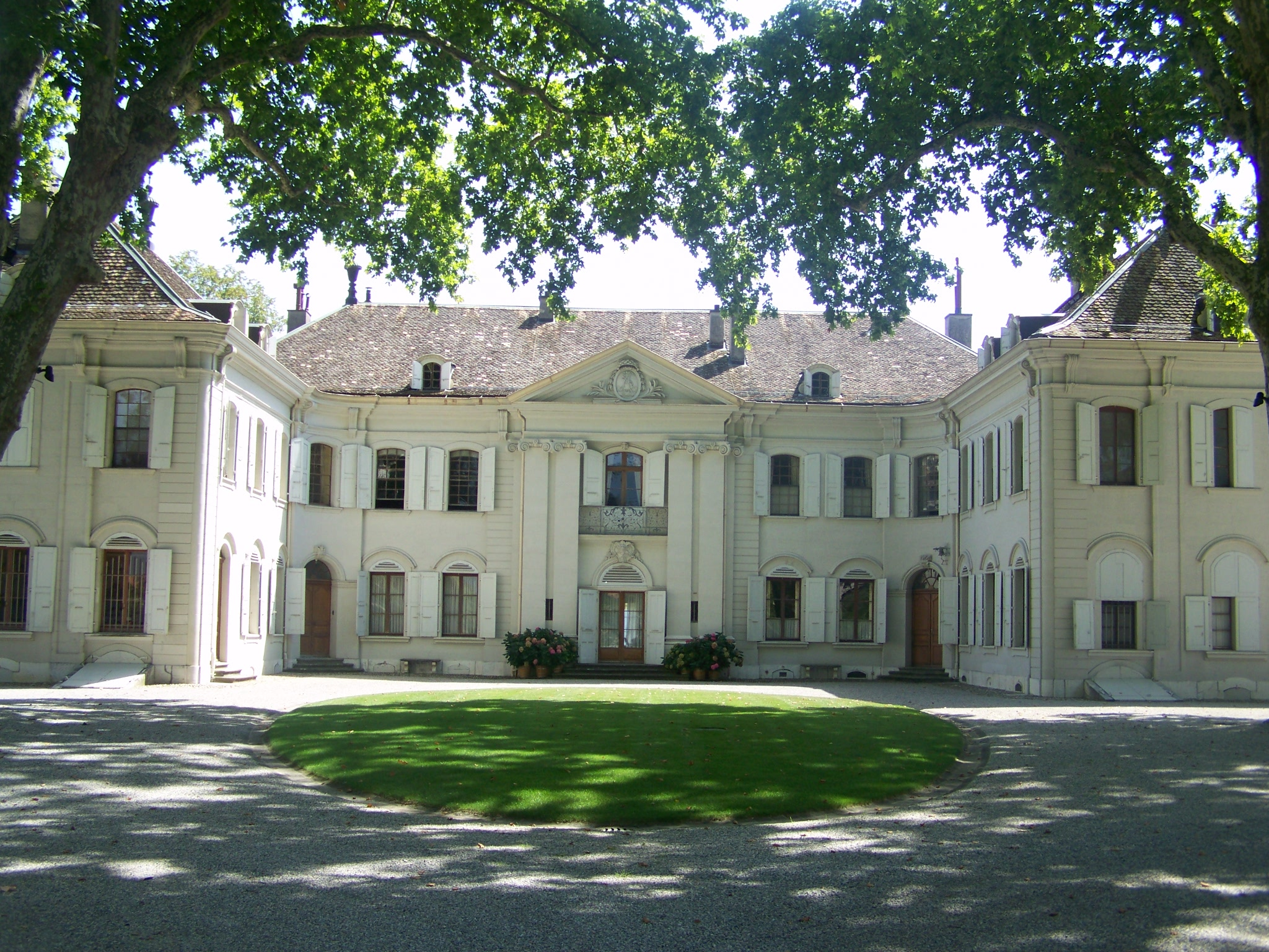 Sight on château de Crans in Crans-près-Céligny near Nyon in Switzerland.